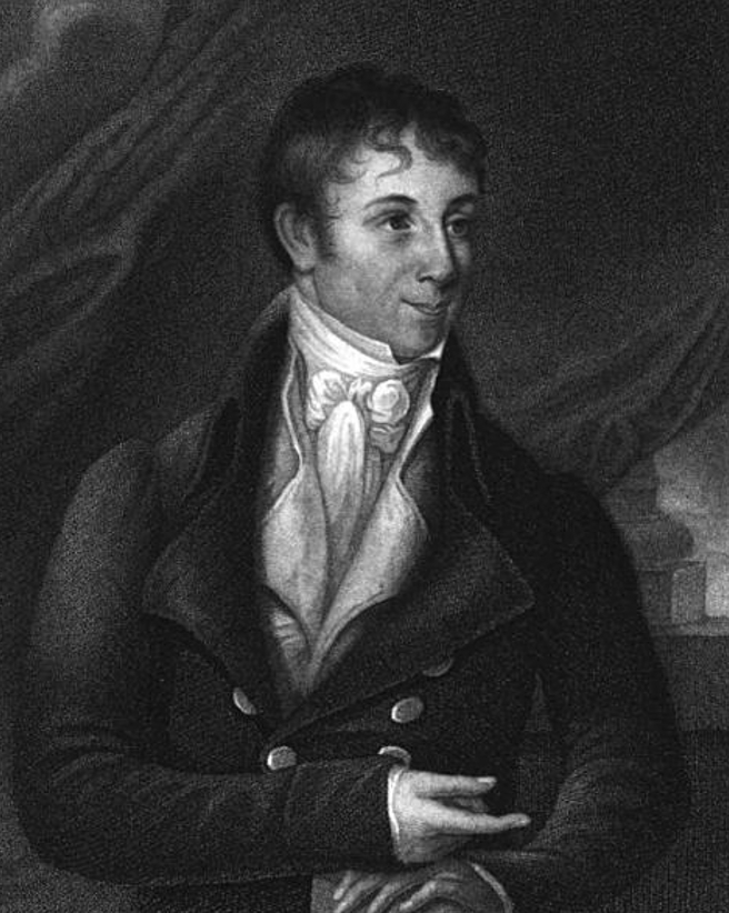 Engraving of American writer Charles Brockden Brown. From The Life of Charles Brockden Brown by William Dunlap. Published by James P. Parke, 1815.